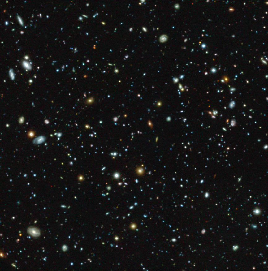 This colour image shows the Hubble Ultra Deep Field region, a tiny but much-studied region in the constellation of Fornax, as observed with the MUSE instrument on ESO’s Very Large Telescope. But this picture only gives a very partial view of the riches of the MUSE data, which also provide a spectrum for each pixel in the picture. This data set has allowed astronomers not only to measure distances for far more of these galaxies than before — a total of 1600 — but also to find out much more about each of them. Surprisingly 72 new galaxies were found that had eluded deep imaging with the NASA/ESA Hubble Space Telescope.